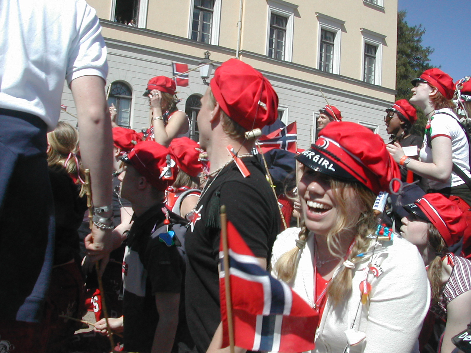 Russ passing by the Royal Palace in Oslo, May 17th 2002. This image is from 2002, when I was Russ myself, and shows several of my classmates passing by the Royal Palace in Oslo during the 17th of May celebrations. It is the raw unedited image directly from my Nikon Coolpix 775 camera, with no postprocessing/cropping/etc..